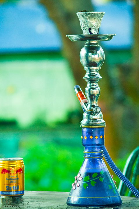 hukkah in use with other energy drink